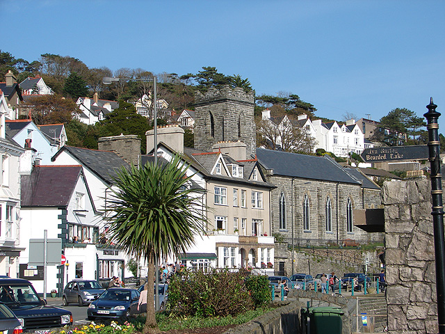 St Peter's Church & Terrace Road Aberdyfi From St Peter's web site: St Peter’s is the Church in Wales church in Aberdyfi, one of the most beautiful villages in Snowdonia National Park. It is a member of the world-wide Anglican communion and part of the Diocese of Bangor. We are part of a group of churches with Tywyn, Bryncrug, Abergynolwyn, Llanegryn, Tal-y-Llyn and Llanfihangel y Pennant, though we have our own PCC and church officers. Services are bilingual and we are very proud of our Welsh heritage, as this is the language of a large number of the present inhabitants of the village. We also have the privilege of welcoming a great number of tourists throughout the summer and during the Christmas and Easter holidays.